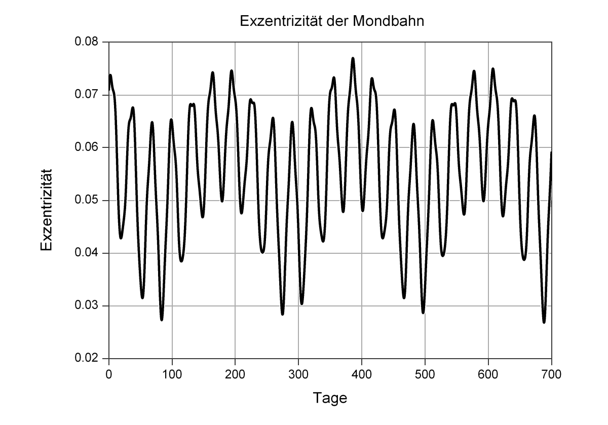 Variation of the eccentricity of the instantaneous osculating ellipse describing the Moon's orbit over 700 days. Drawn by myself. Data from JPL's HORIZONS ephemeris generator.